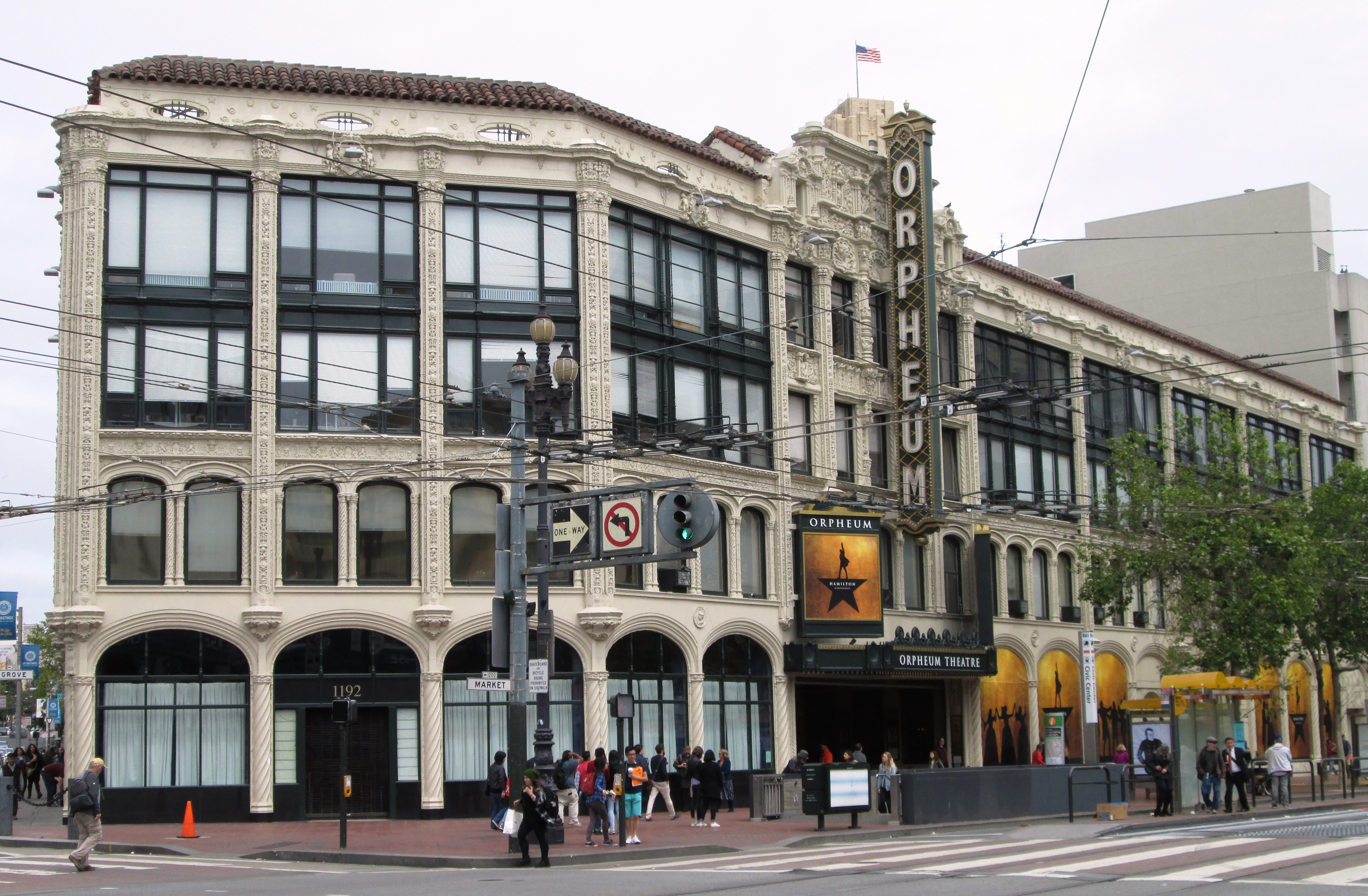 The Orpheum Theatre, originally the Pantages Theatre, is located at 1192 Market at Hyde, Grove and 8th Streets in the Civic Center neighborhood of San Francisco, California. The theatre opened in 1926 as one of the many designed by architect B. Marcus Priteca for theater-circuit owner Alexander Pantages. The interior features a vaulted ceiling, while the facade was patterned after a 12th-century French cathedral. The Orpheum seats 2,203 patrons. The theatre is a designated San Francisco landmark.